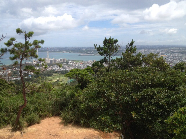 The view of Ishikawa City (Uruma City) from the top of Mount Ishikawa.